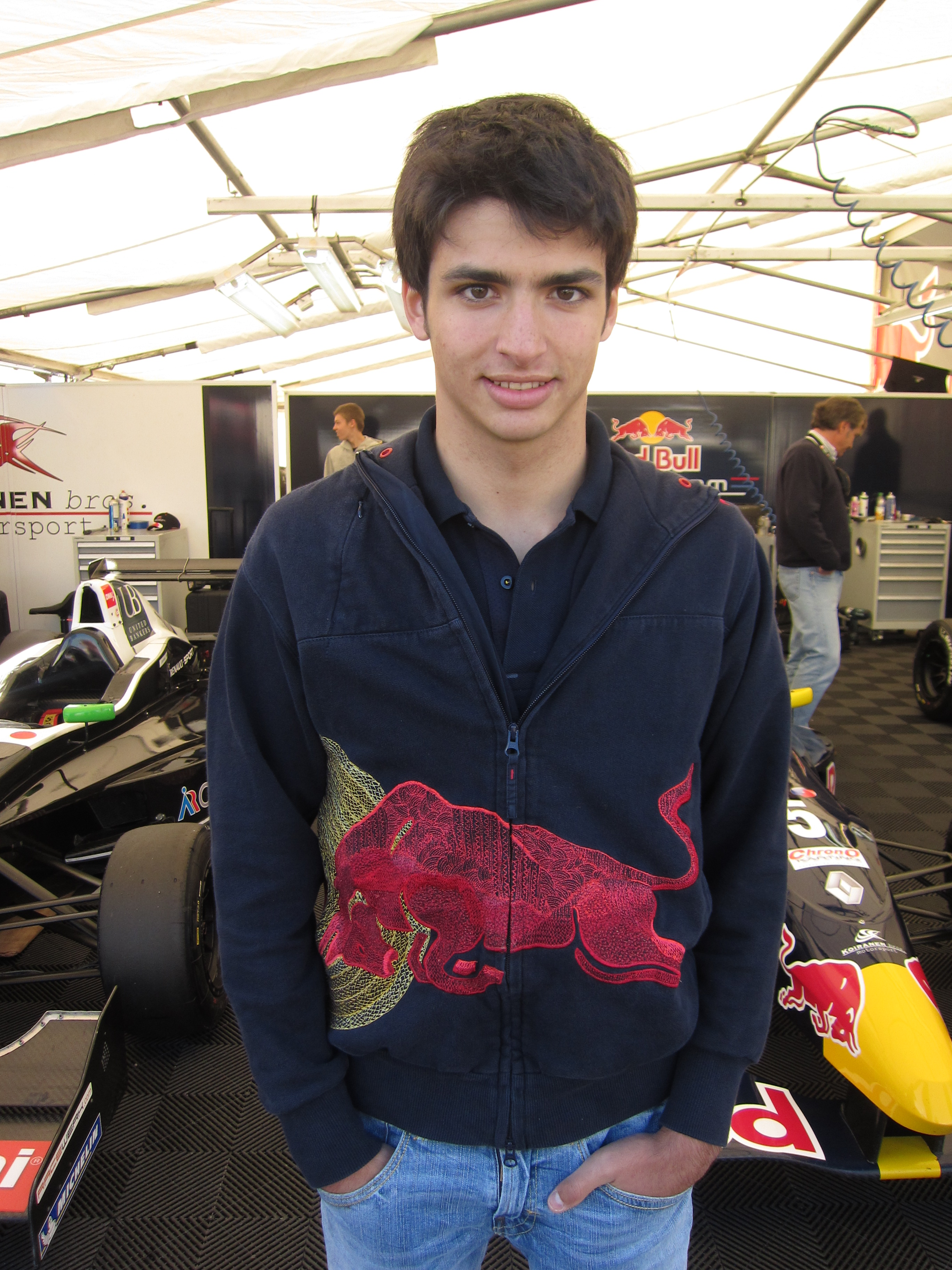 Carlos Sainz jr.: the photo was taken during 2011's Preis der Stadt Stuttgart (= Prix of the town Stuttgart) at Hockenheim